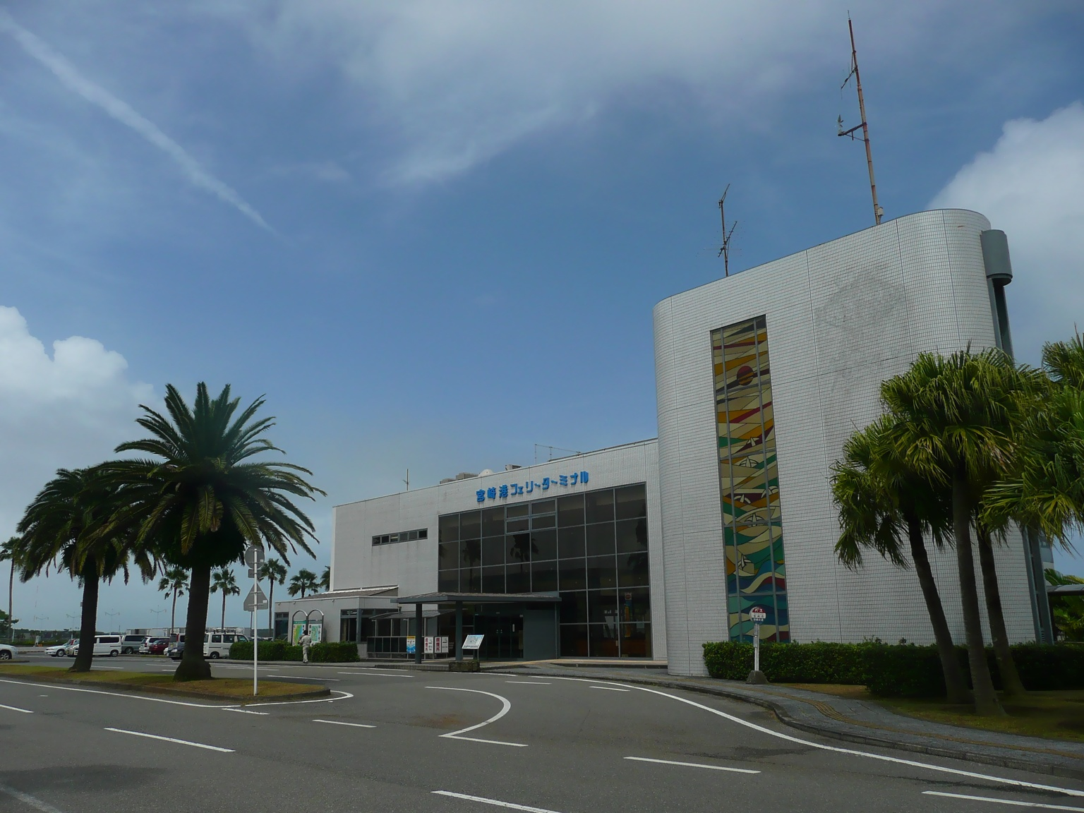 Miyazaki Port Ferry Terminal (Miyazaki city, Japan)